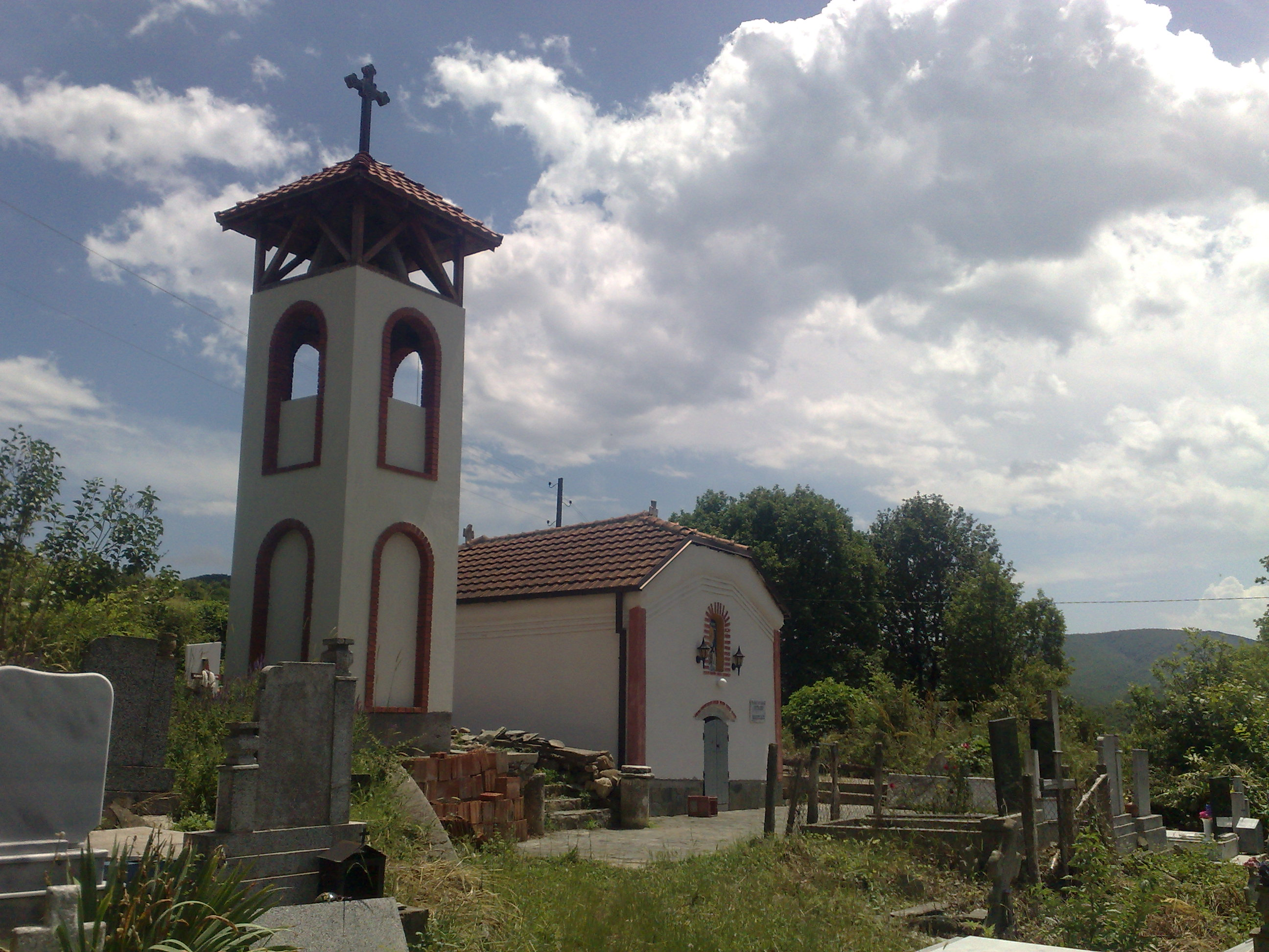 The church of St. Nicolas in Novo Selo (Zelenikovo municipality)